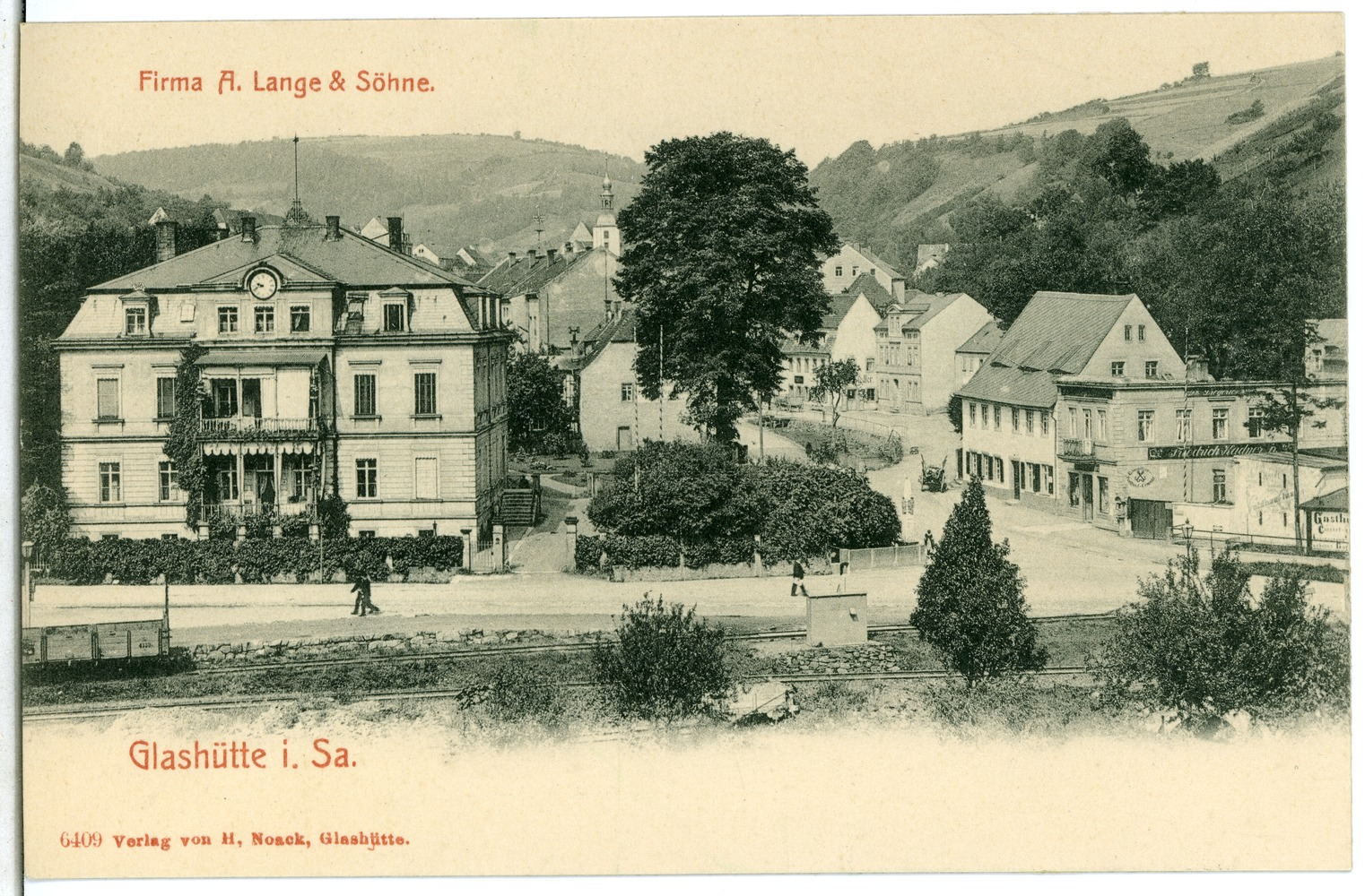 This postcard is from publisher Brück & Sohn in Meißen ( This postcard has a unique number 06409 and is available in a higher resolution at the publisher. This images was uploaded in a cooperation project between Wikipedians and the publisher.